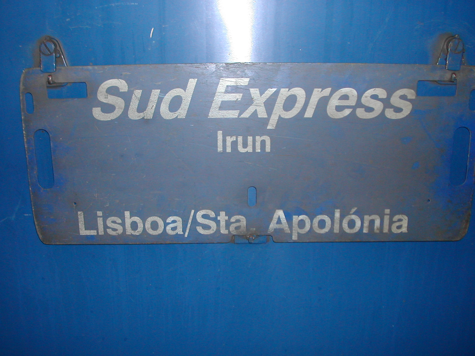 Sud Express panel